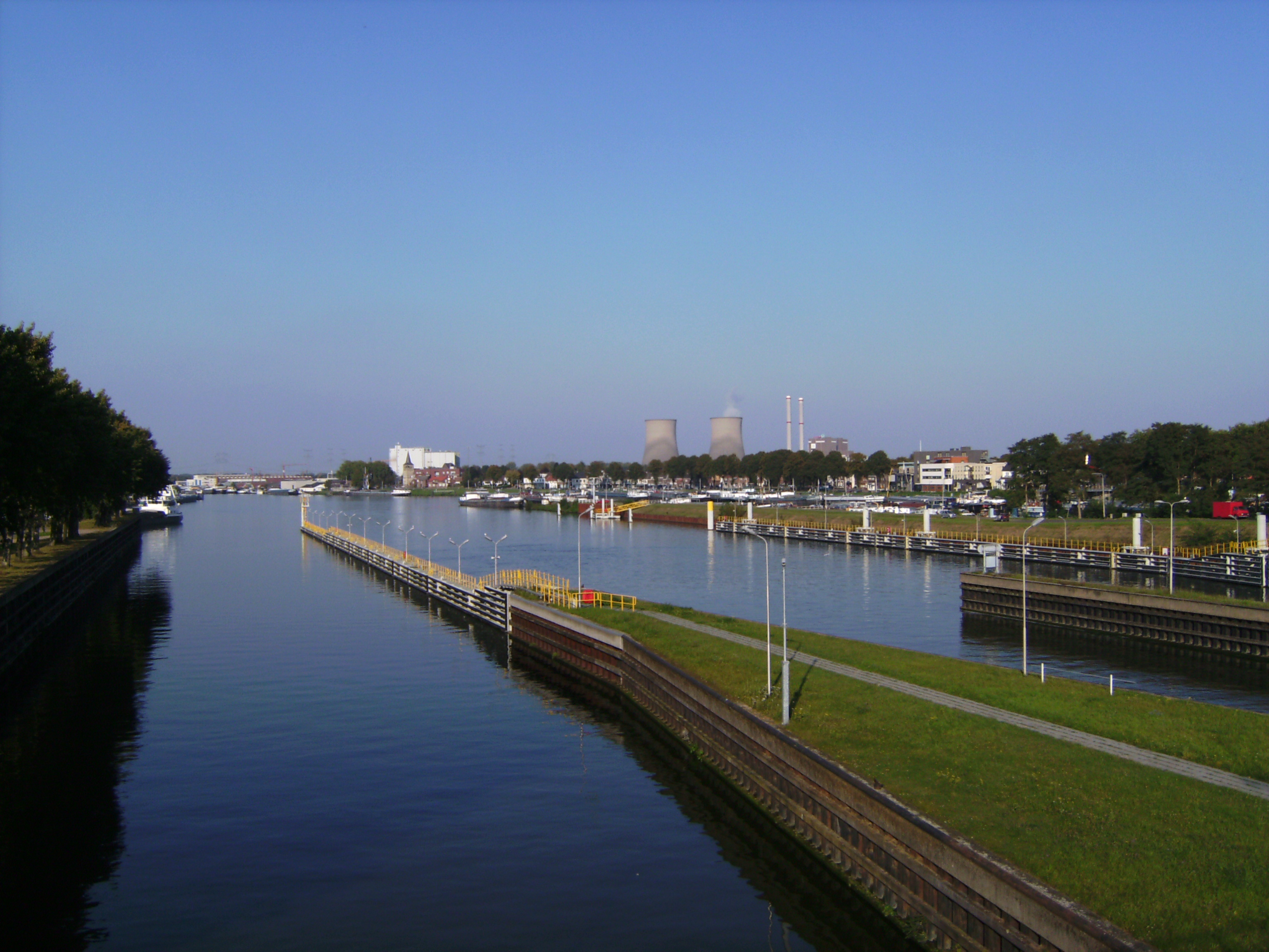 Maasbracht, view to town